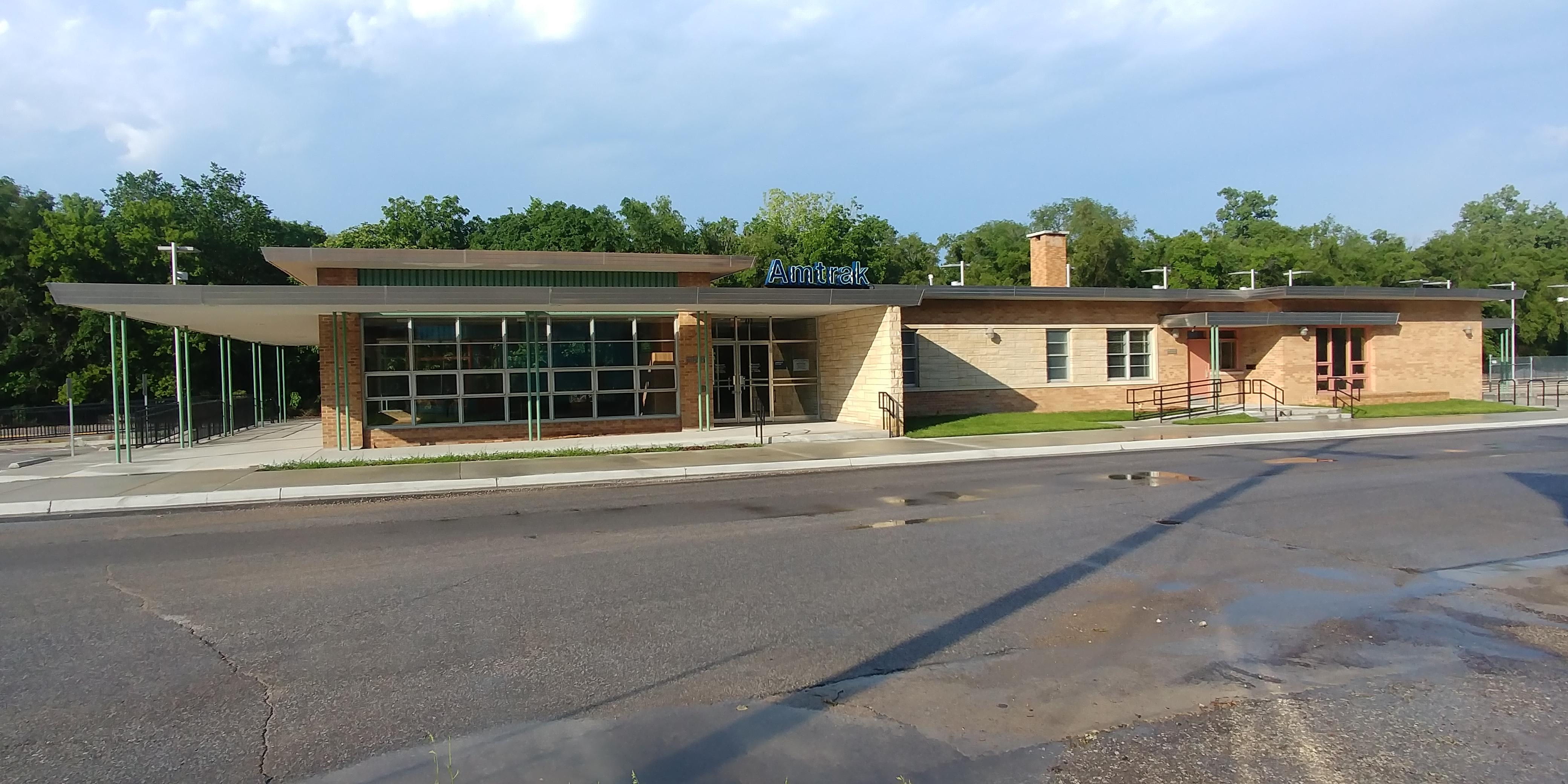 Lawrence Amtrack Station